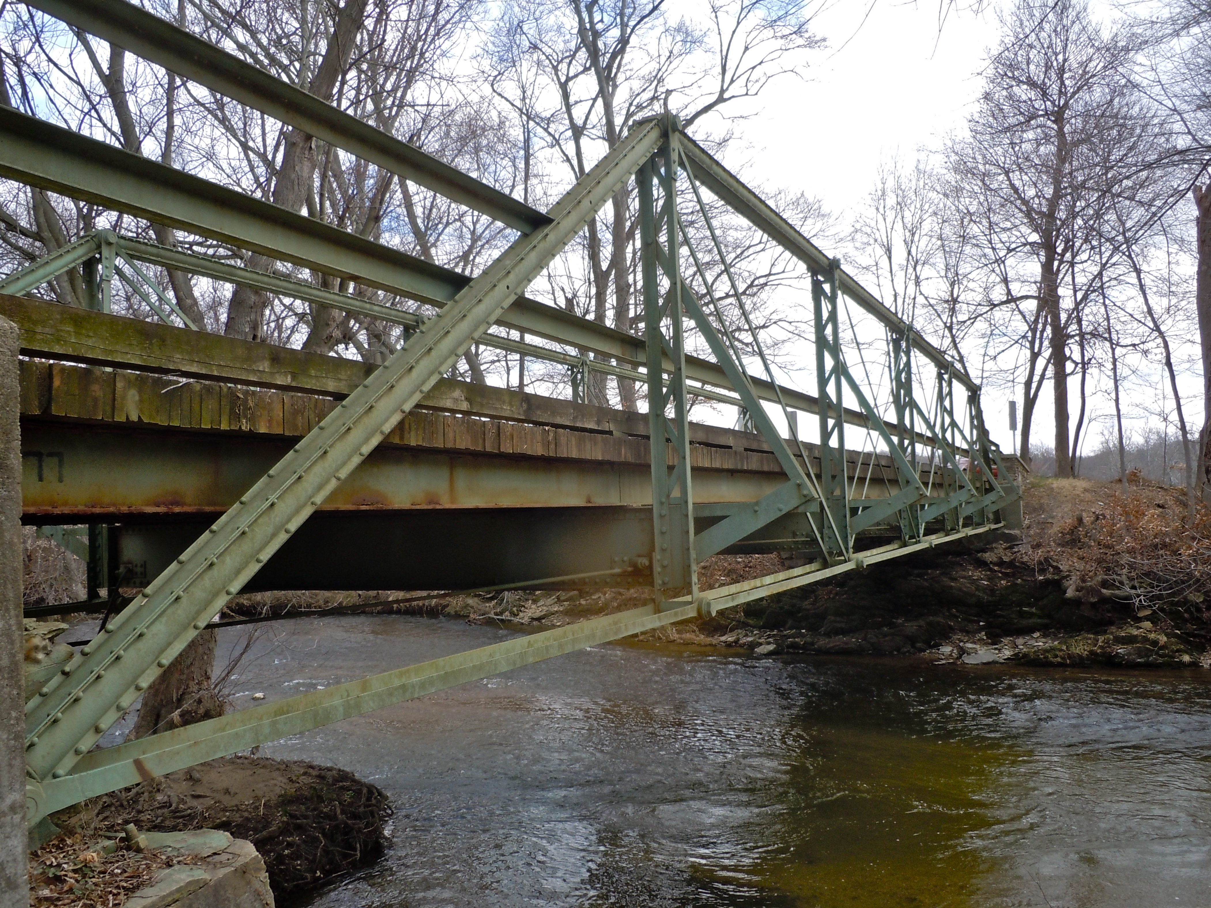 Bridge in West Fallowfield Township on the NRHP since June 22, 1988. On Ross Fording Road over Octoraro Creek, near Steelville, West Fallowfield Township, Chester County, Pennsylvania. Near Lancaster County, Amish area - please don't speed over the hills on the country roads - there may be buggies.